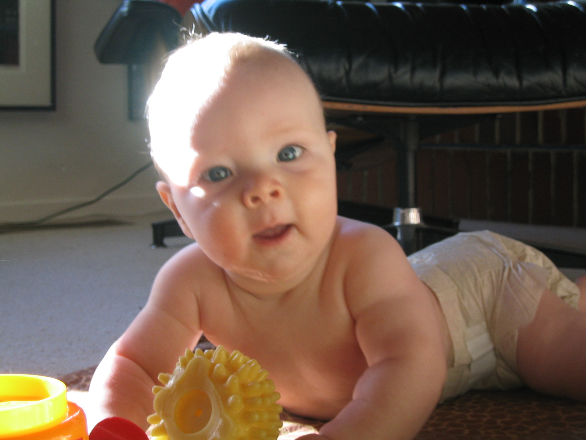 Baby Thomas.